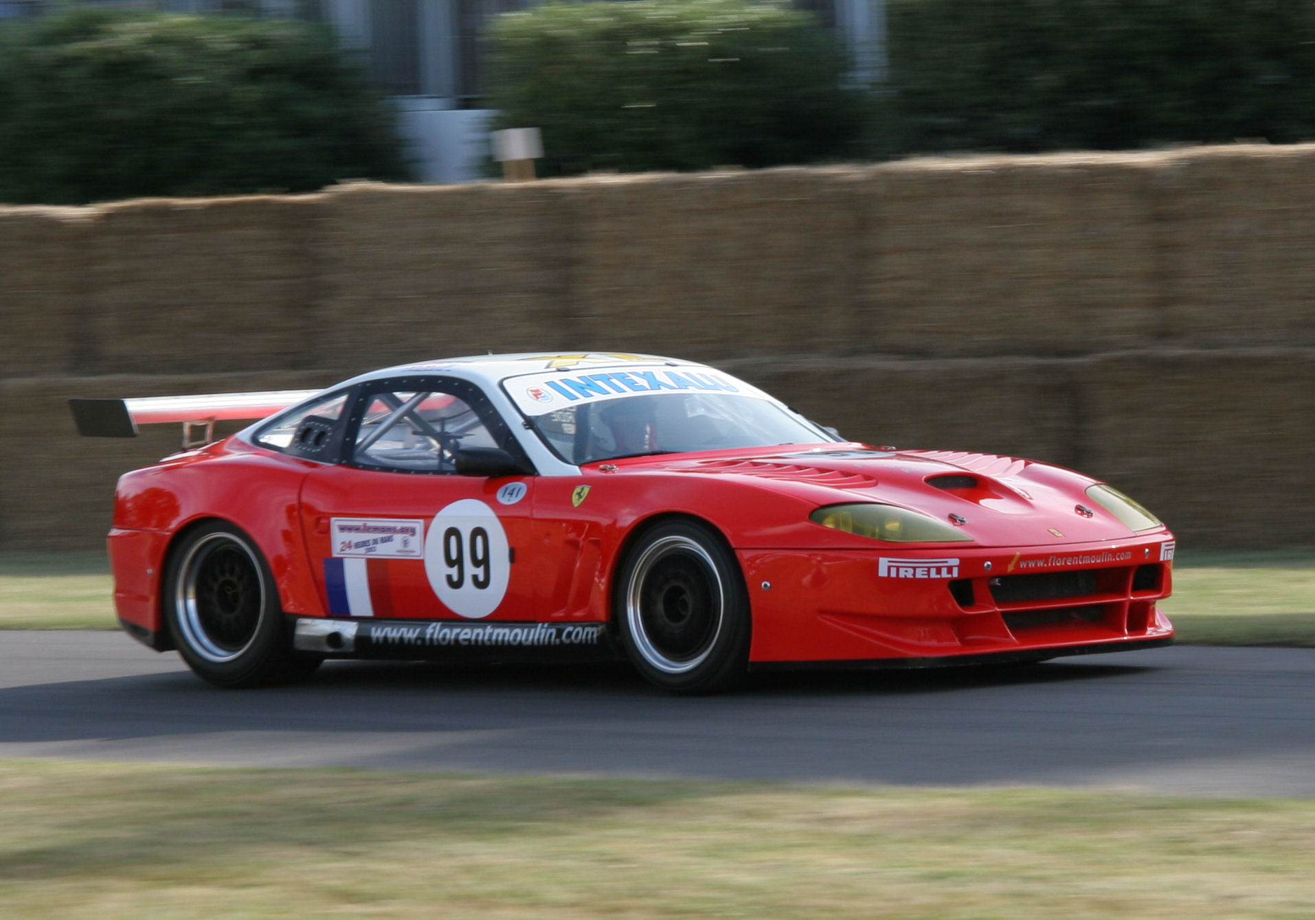 XL Racing Ferrari 550 Maranello that ran in the GT class. One of two built by XL Racing for the FFSA GT Championship in 2002-2003. Also ran a few races in the ALMS in 2002 (Road American and Petit Le Mans at least). It also ran but failed to finish the 2003 24 Hours of Le Mans. It's not a Prodrive-built 550, but instead a production car modified by XL Racing.